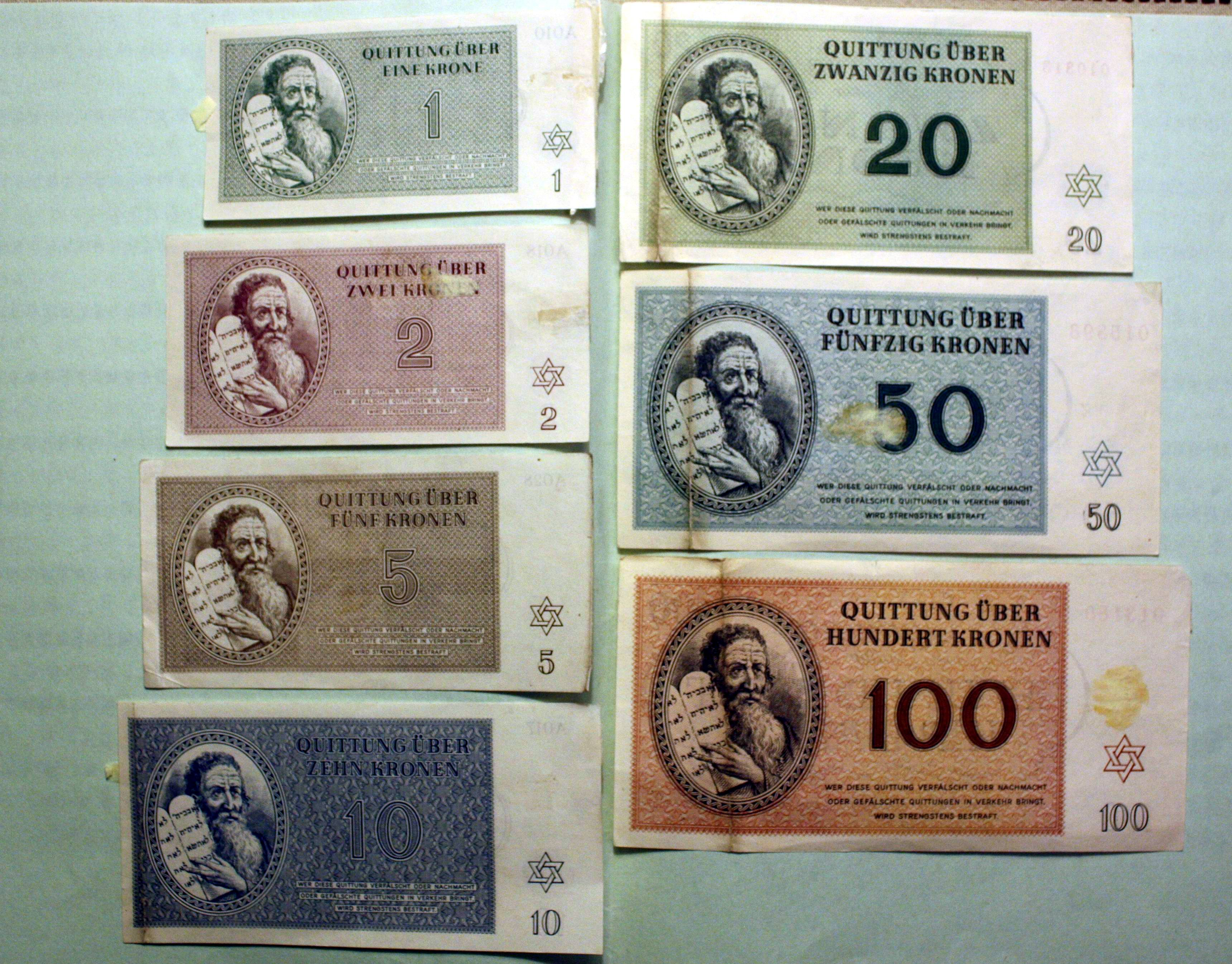 Jewish ghetto "money" from Concentration Camp in Theresienstadt (Terezín), now Czech Republic.